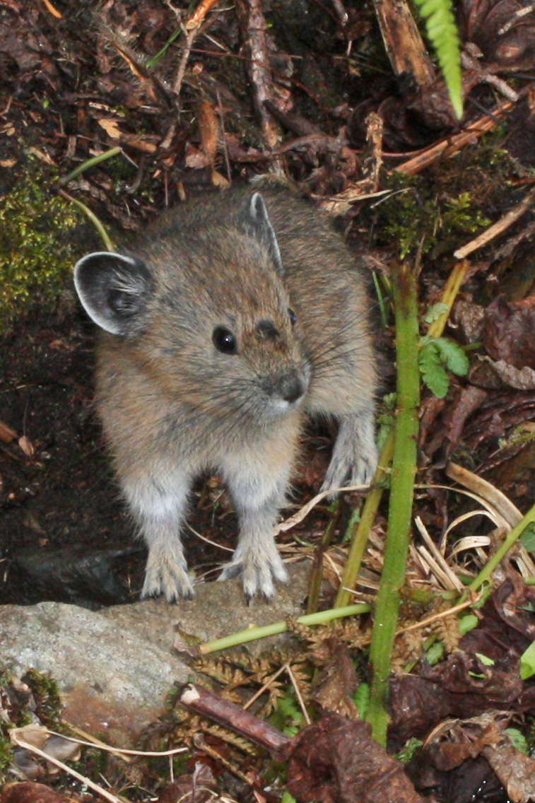 American Pika